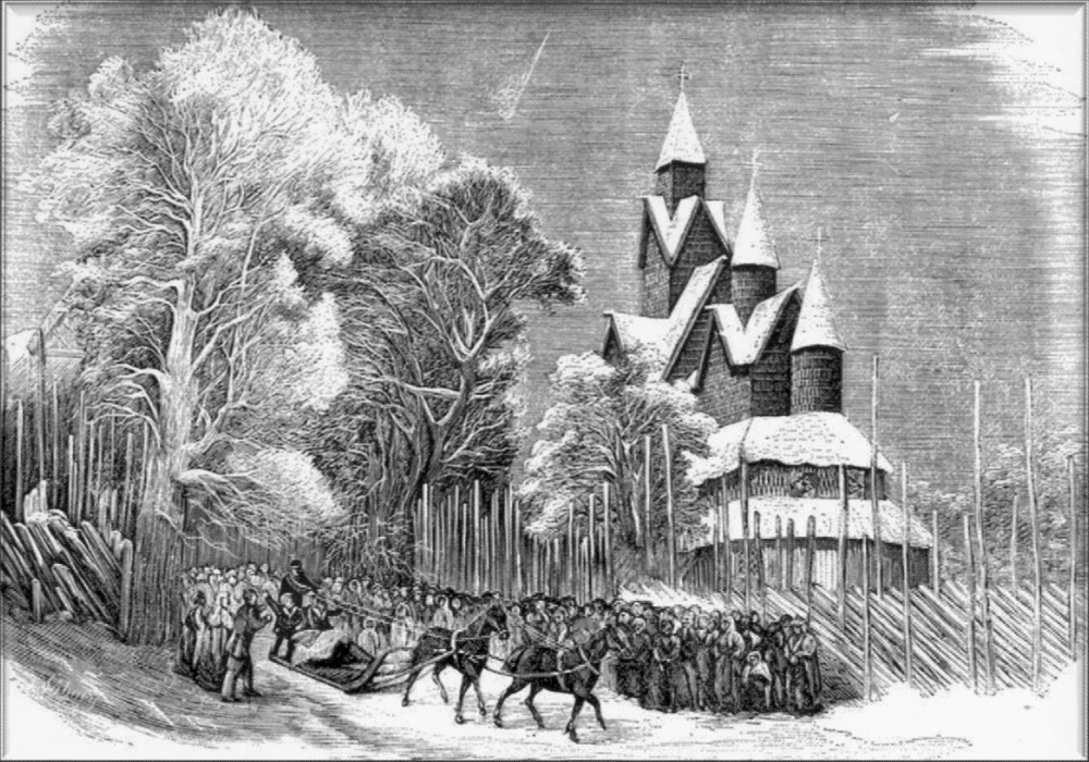 Heddal stavkyrkje (stave church of Heddal) in Notodden 1871, Norway From "Ballongfranskmennene", after a painting in Le Monde Illustré 1871